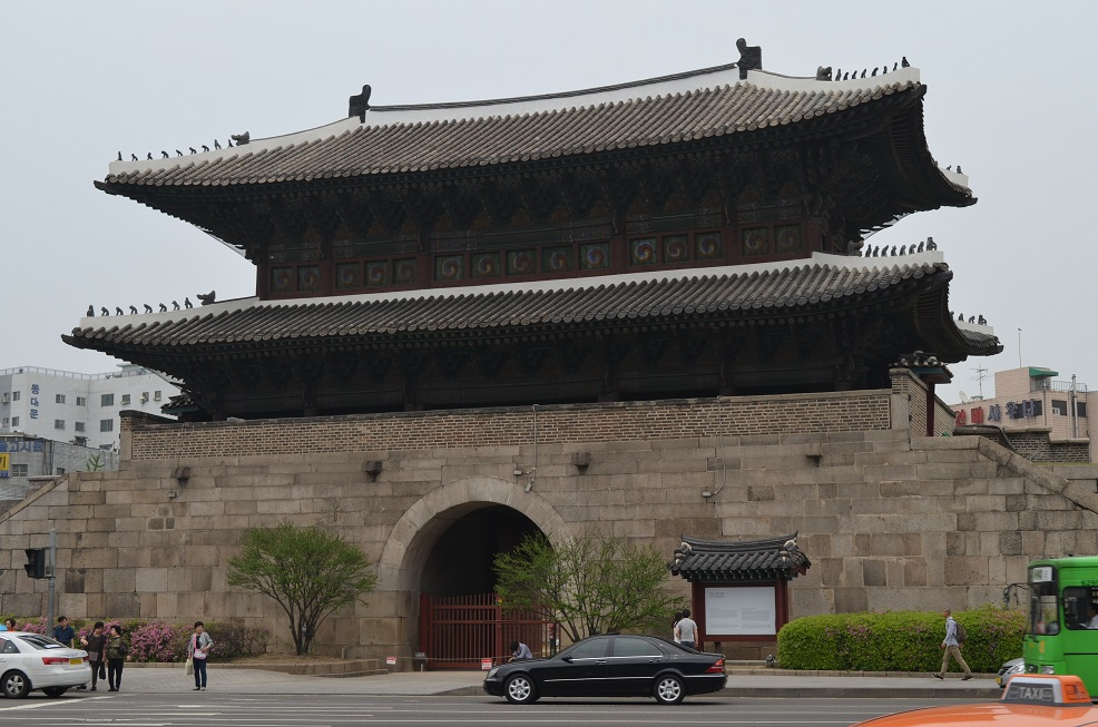 Heunginjiimun Gate, also known as East Gate or Dongdaemun, Seoul, South Korea. Photographed May 12, 2012.